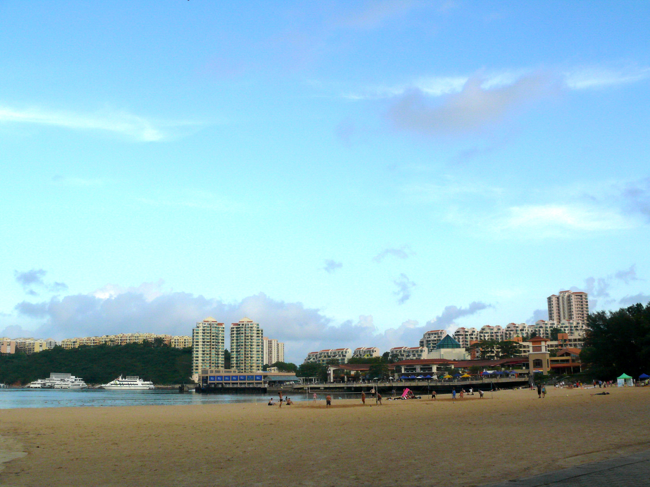 Tai Pak Beach, Discovery Bay, Hong Kong.